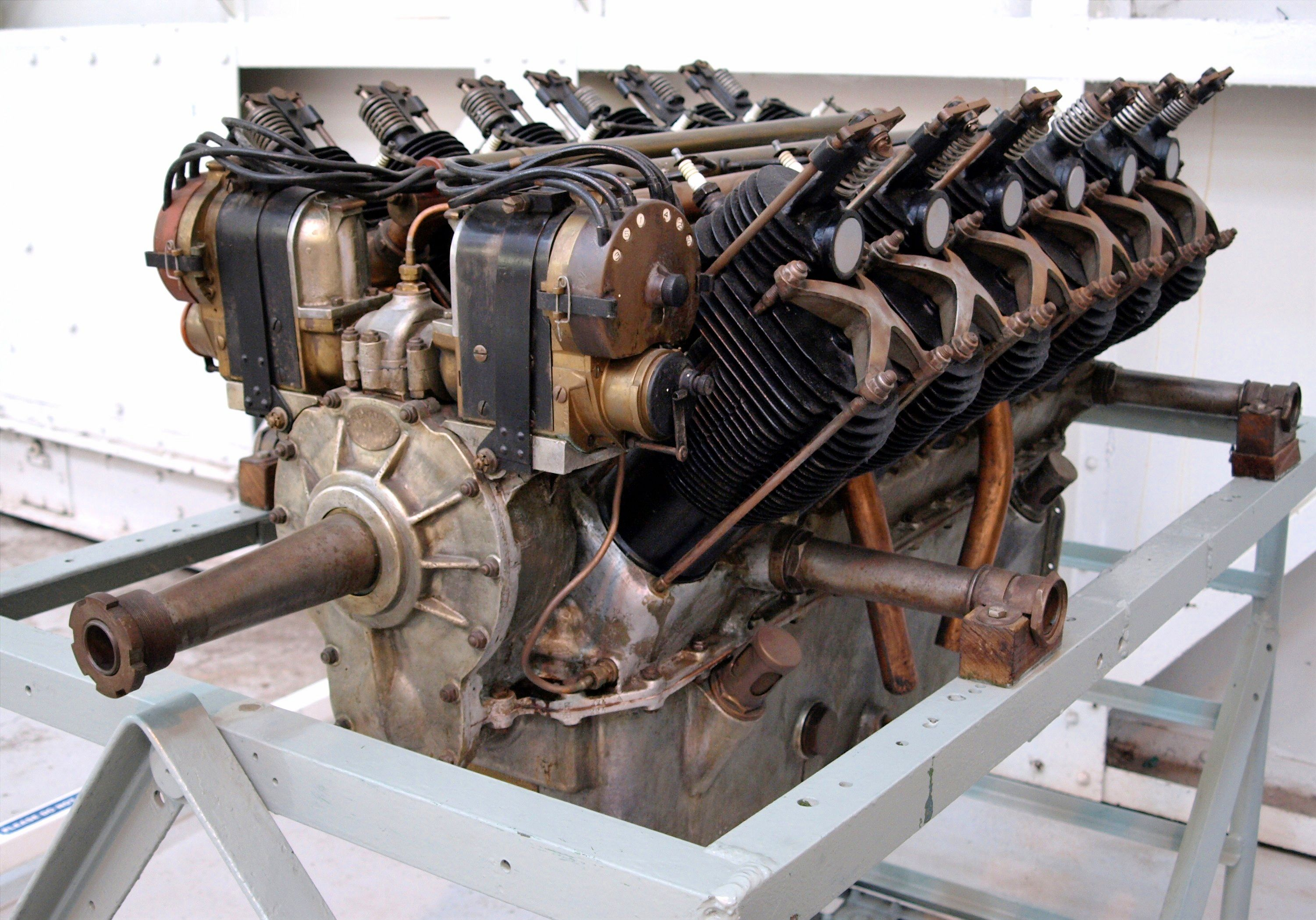 Renault 12Dc 130 hp V-12 aircraft piston engine at the Royal Air Force Museum, Cosford. (Belongs to the Farman F.141 currently under restoration and is not a 70 hp engine as labelled)